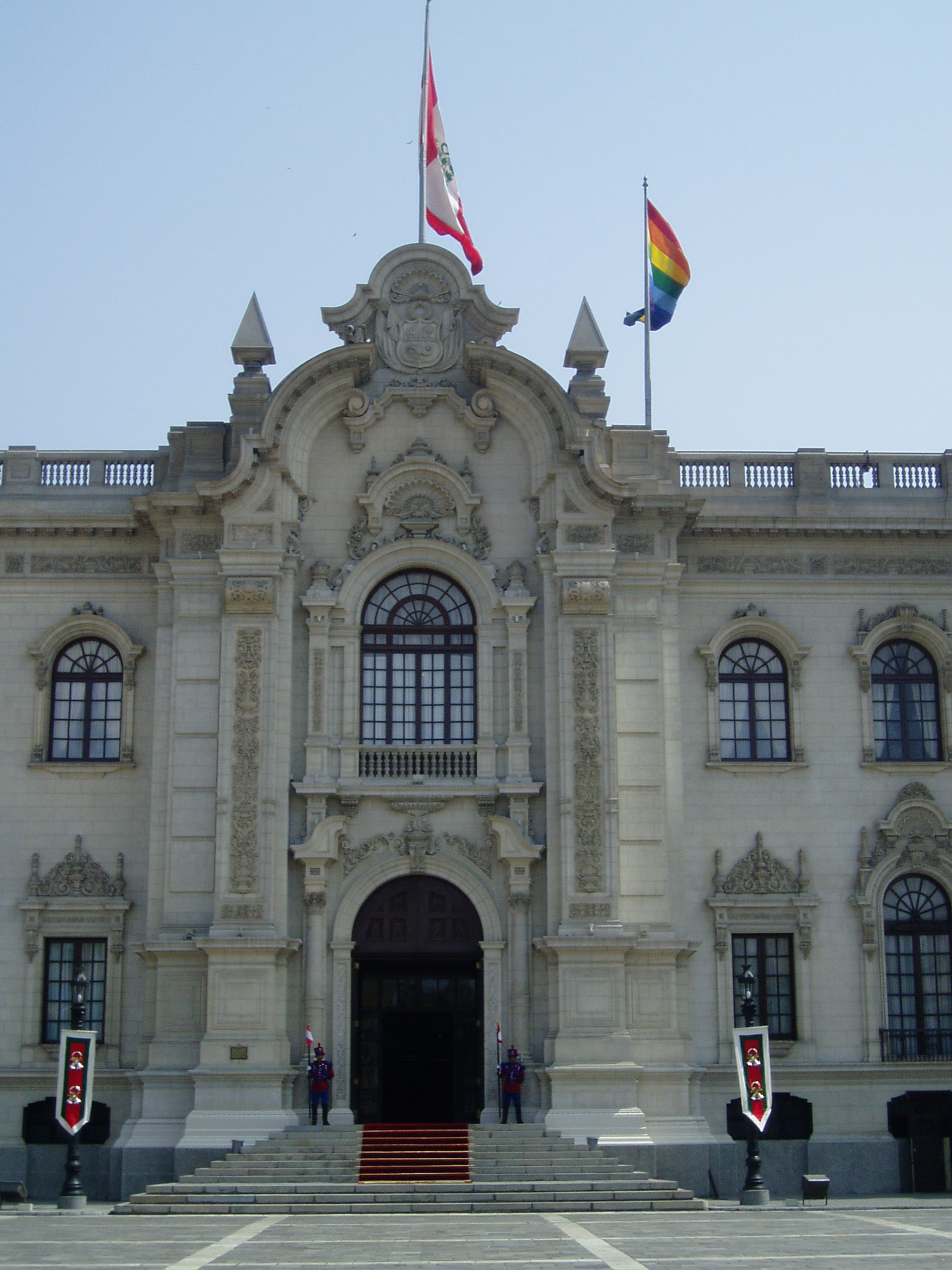 Government Palace, LimaPC270020